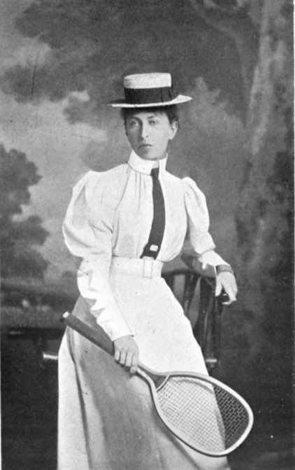 Blanche Bingley Hillyard (1863-1946), English tennis player, six times Wimbledon champion